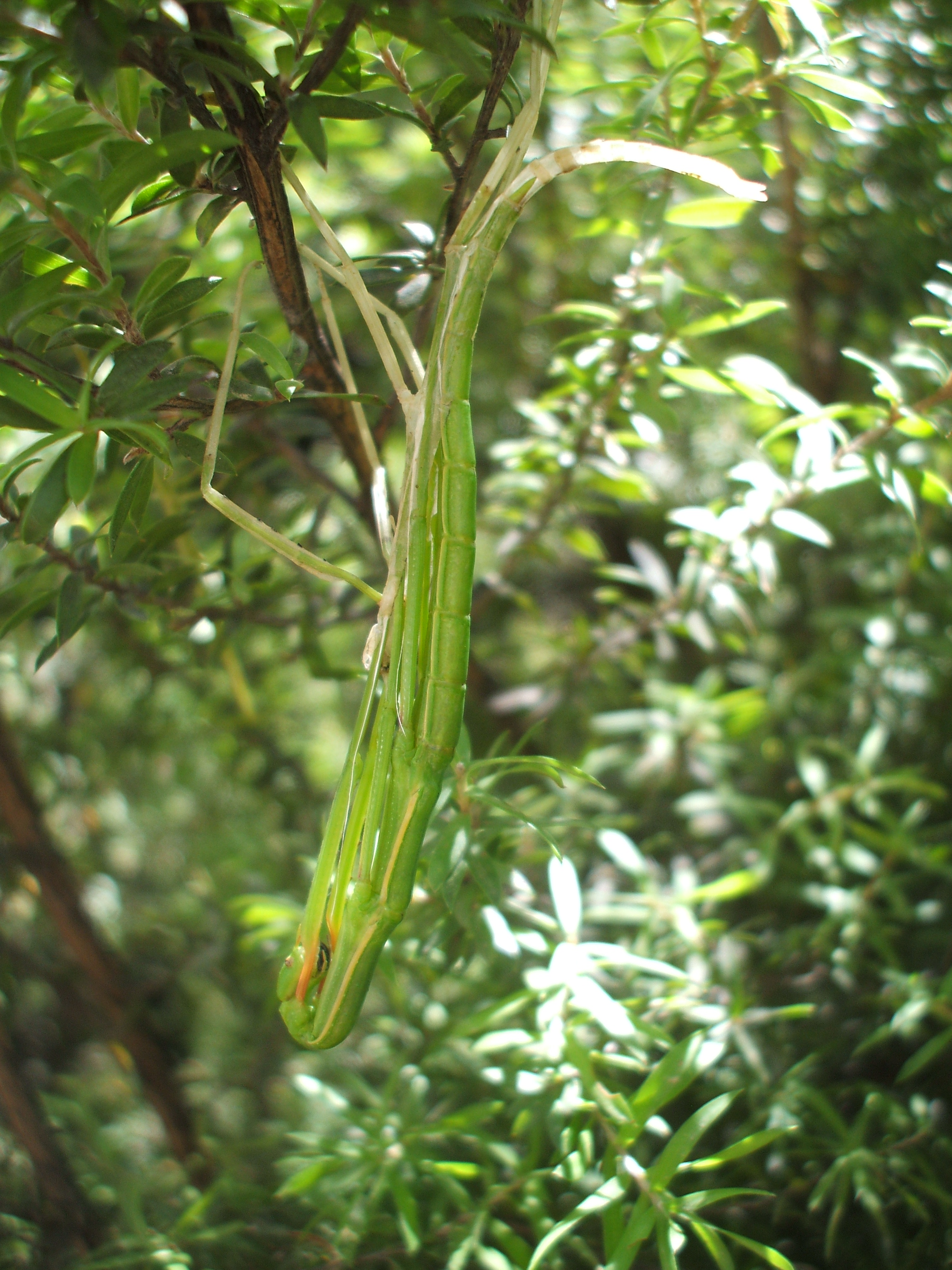 Clitarchus hookeri moulting at Stony Bay, Coromandel